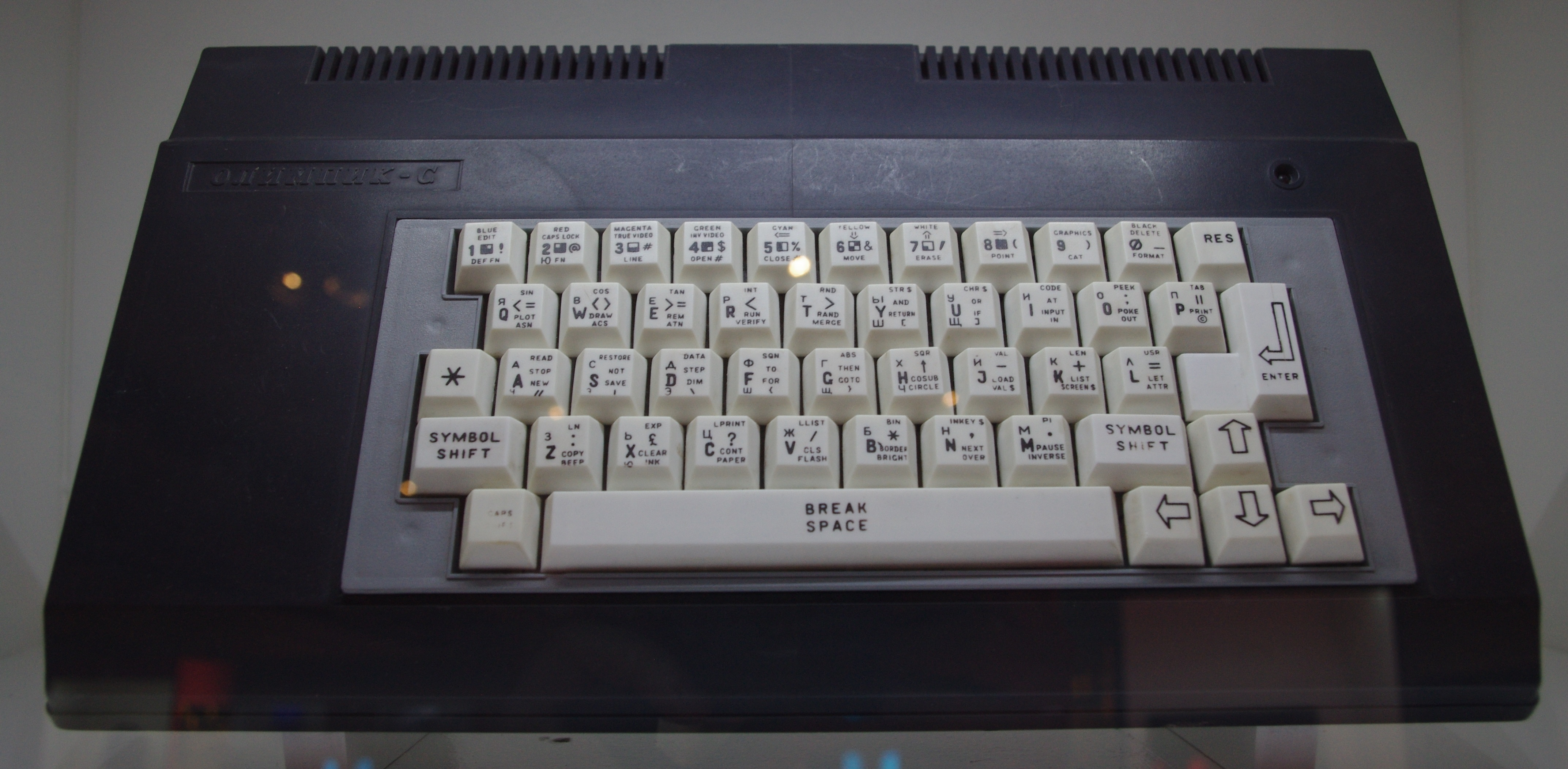 Olympic C Russian clone of ZX Spectrum from 1991.